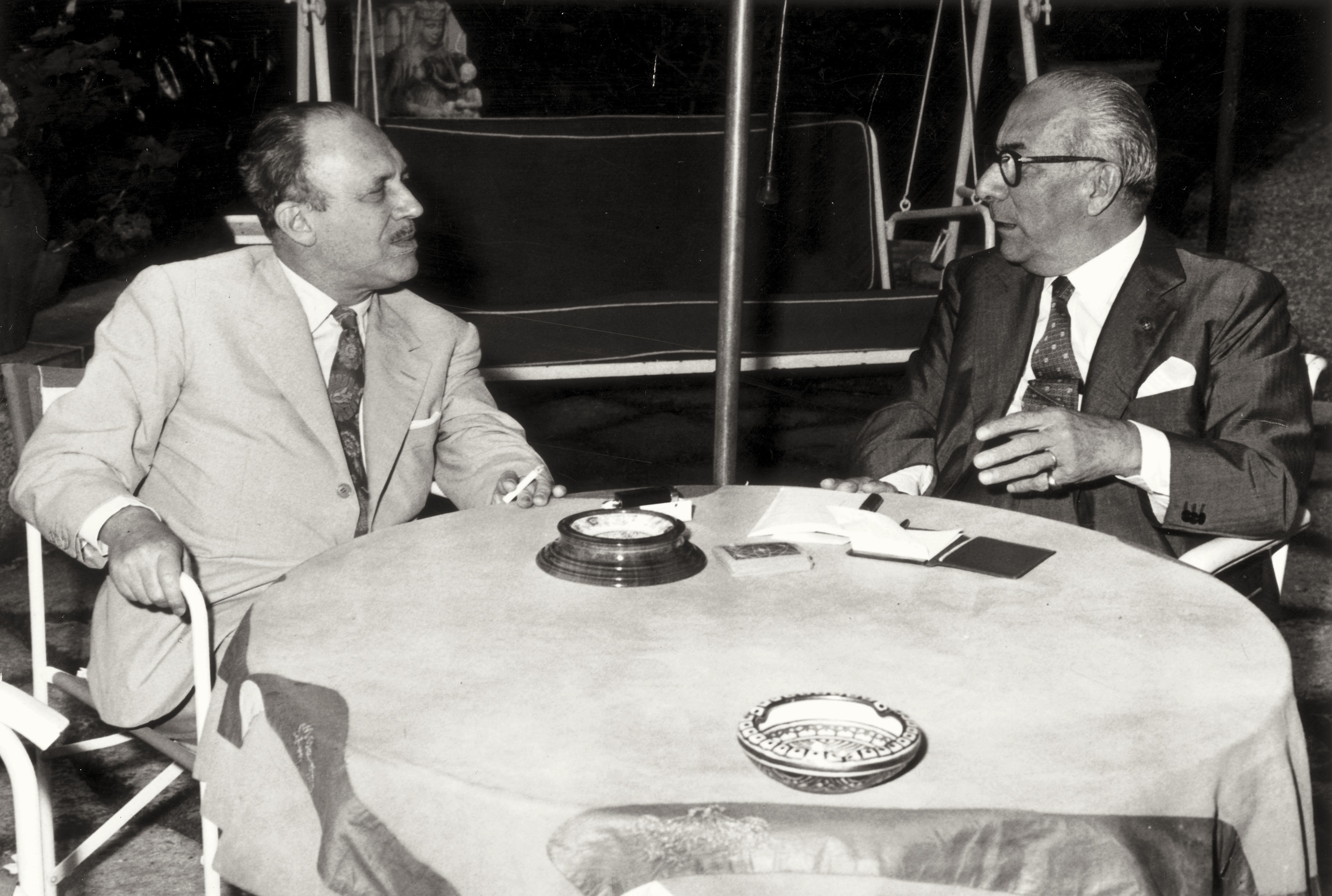 Italian publisher Arnoldo Mondadori and Italian author Guido Piovene.